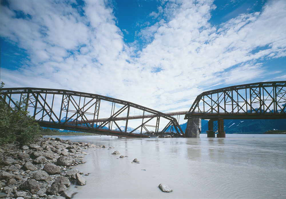 Close up of the damage and kludgy "repairs" to the Miles Glacier Bridge from the Good Friday Earthquake. These temporary repairs were properly fixed in 2004.